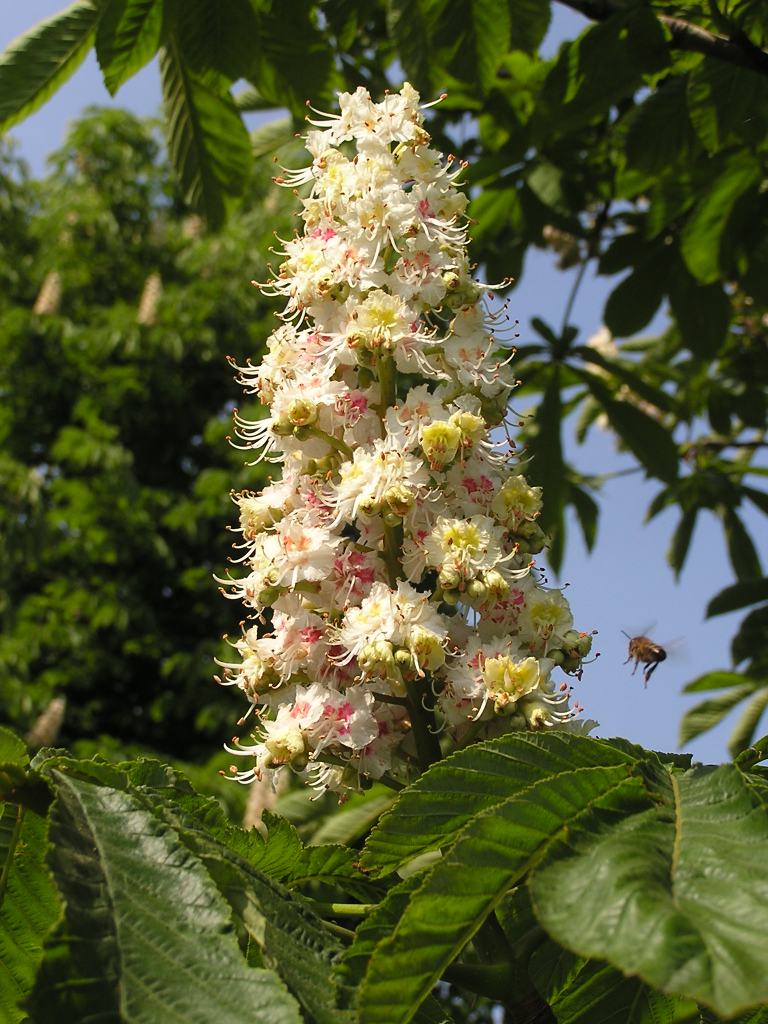 Horse Chestnut, Buckeye